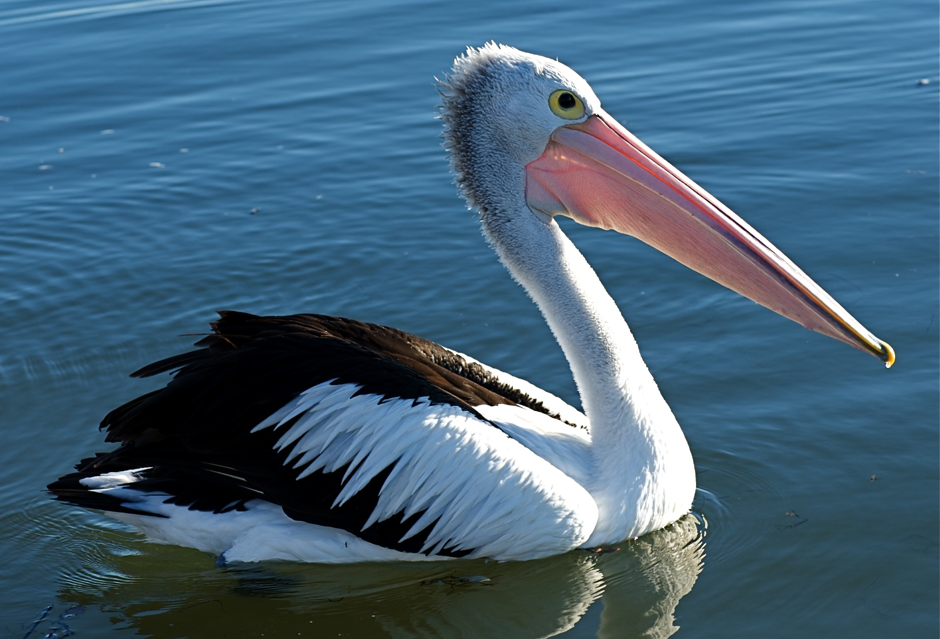 An Australian Pelican swimming in Australia.